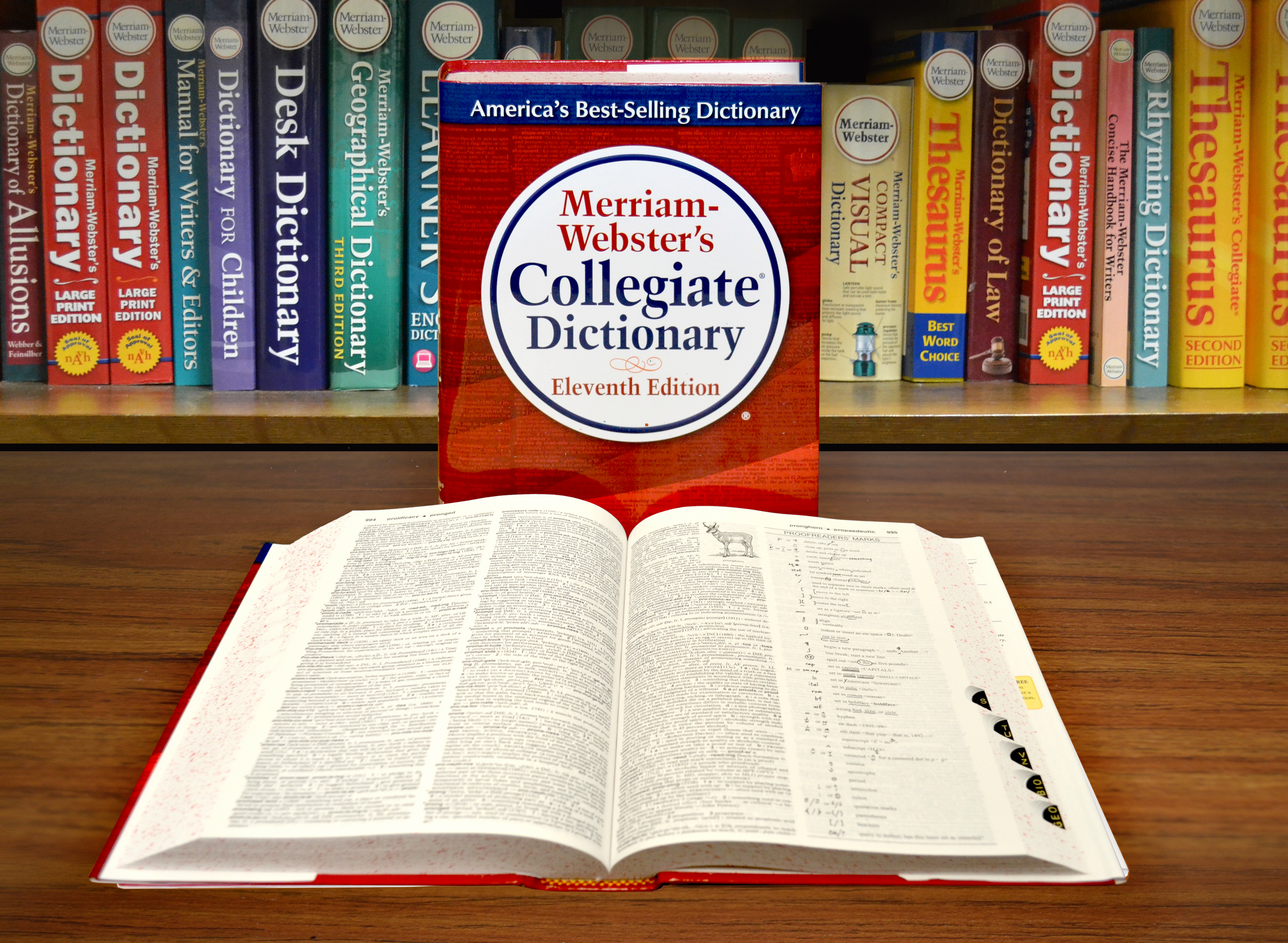 Collegiate Dictionary with open book and bookshelf.